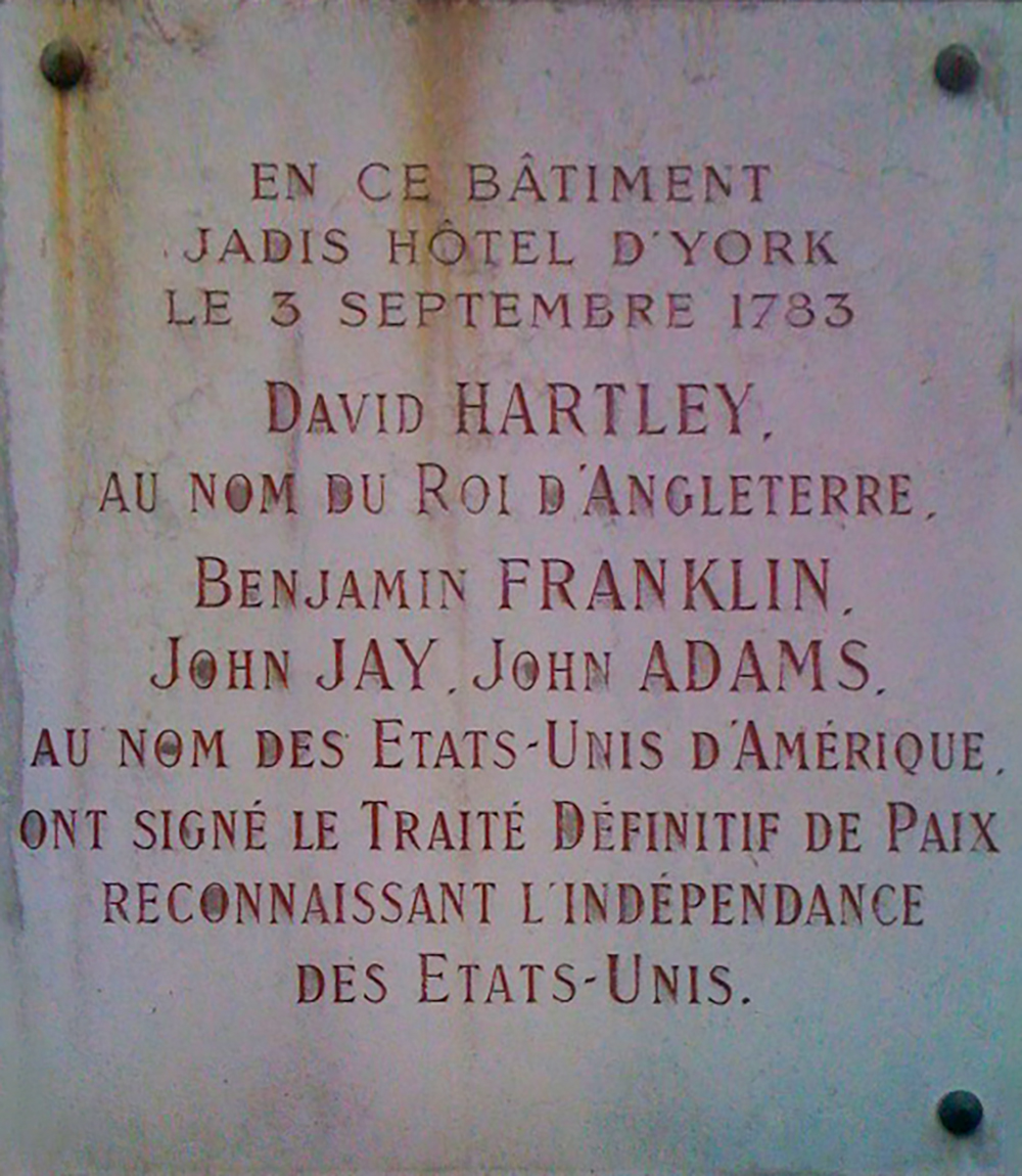 Commemorative plaque of the treaty of Paris, affixed on the building of rue Jacob (N° 56)where the treaty was signed. Text: In this building, once Hotel of York, on September 3, 1783, David Hartly, in the name of the King of England, Benjamin Franklin, John Jay, John Adams, in the name of the United States of America, signed the Definite Peace Treaty recognising the independence of the United States.